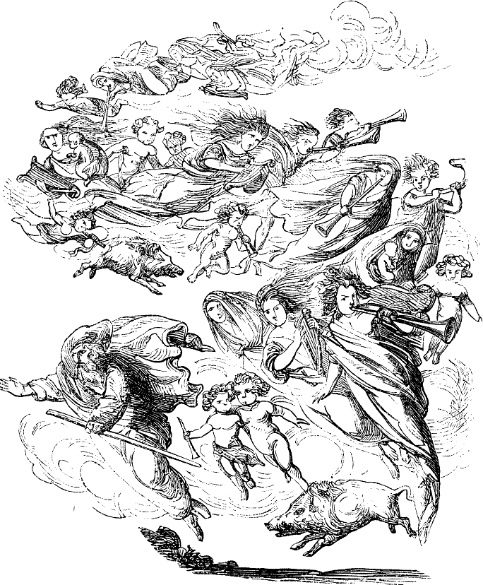 Christmas throughout Christendom Frau Holle, or Berchta, and her Train